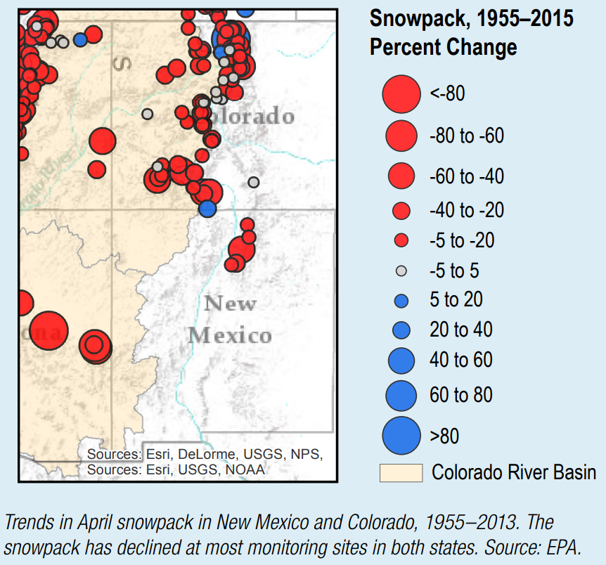 United States Environmental Protection Agency Colorado-New Mexico snowpack map with caption.